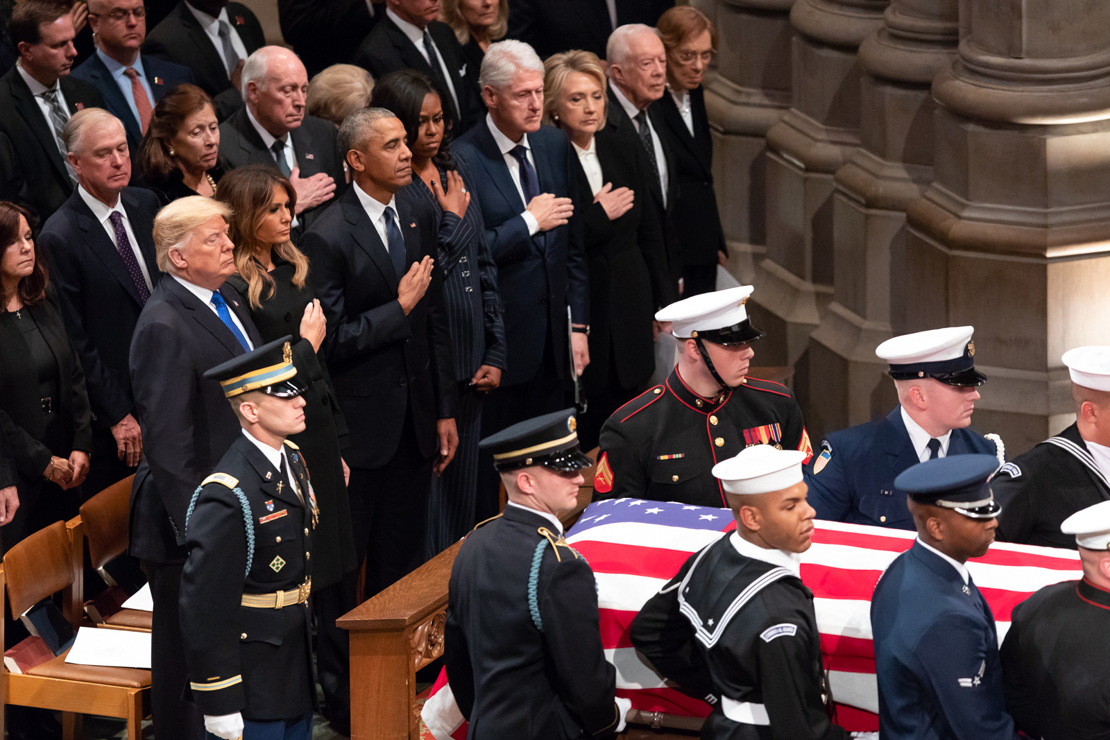 President Donald J. Trump and First Lady Melania Trump, joined by former President Barack Obama and First Lady Michelle Obama, former President Bill Clinton and First Lady Hillary Clinton and former President Jimmy Carter and First Lady Rosalynn Carter, watch as the casket of former President George H. W. Bush arrives to the funeral service Wednesday, Dec. 5, 2018, at the Washington National Cathedral in Washington, D.C. (Official White House Photo by Andrea Hanks)